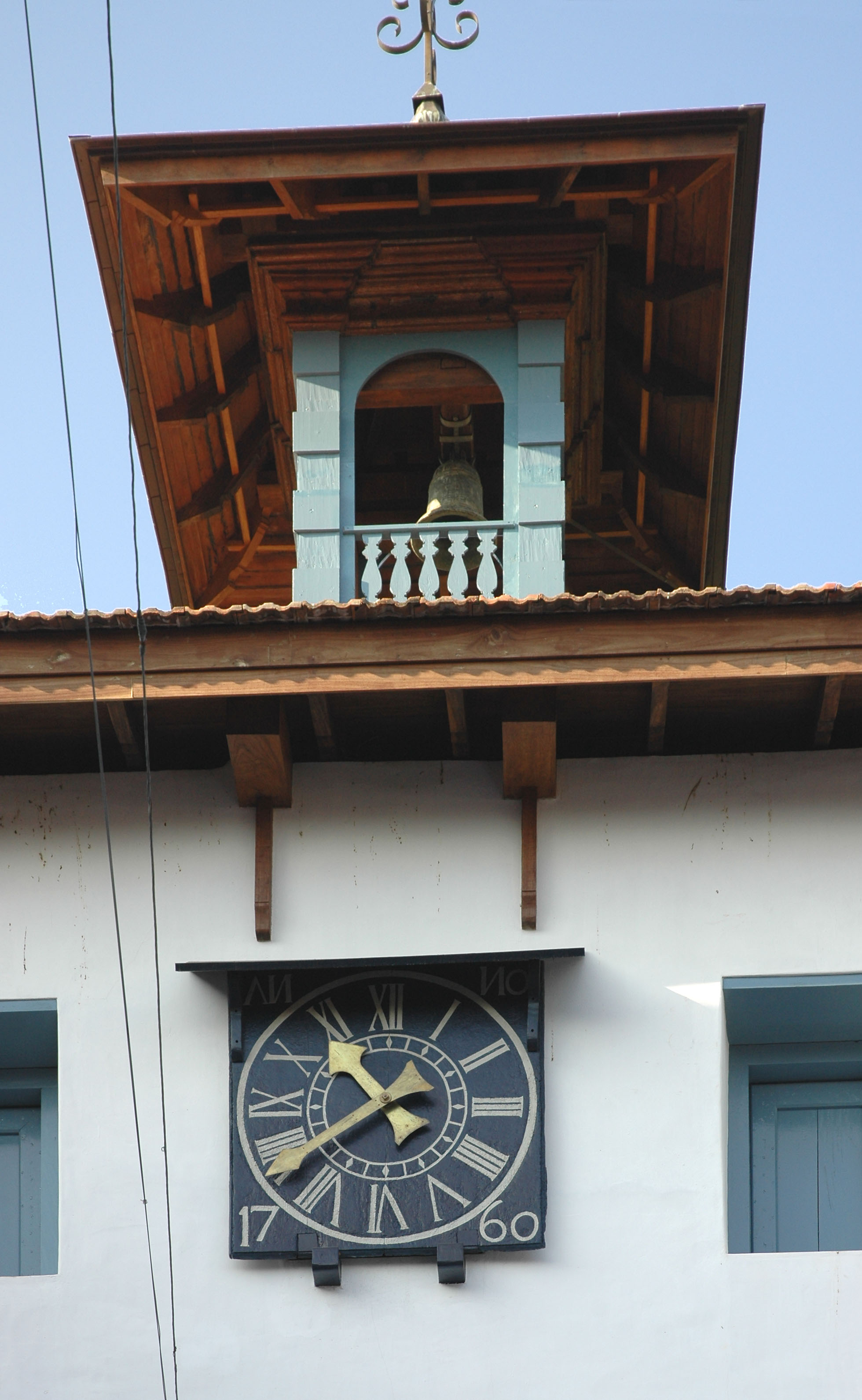 Outside paradesi (white jews of Kochi) Jewish Synagogue. Other photo's: - Google Maps - Google Earth